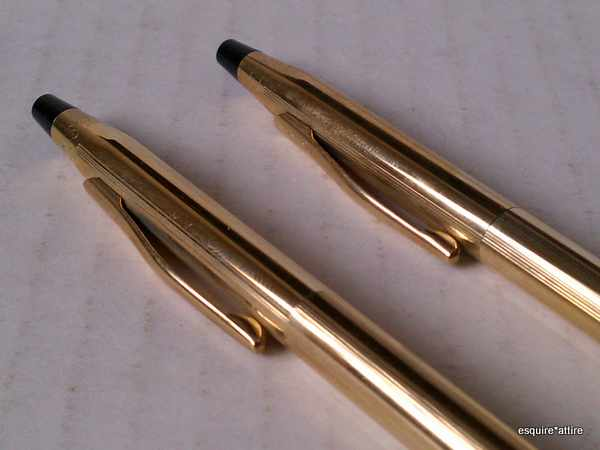 Le "Cross Conical Top"